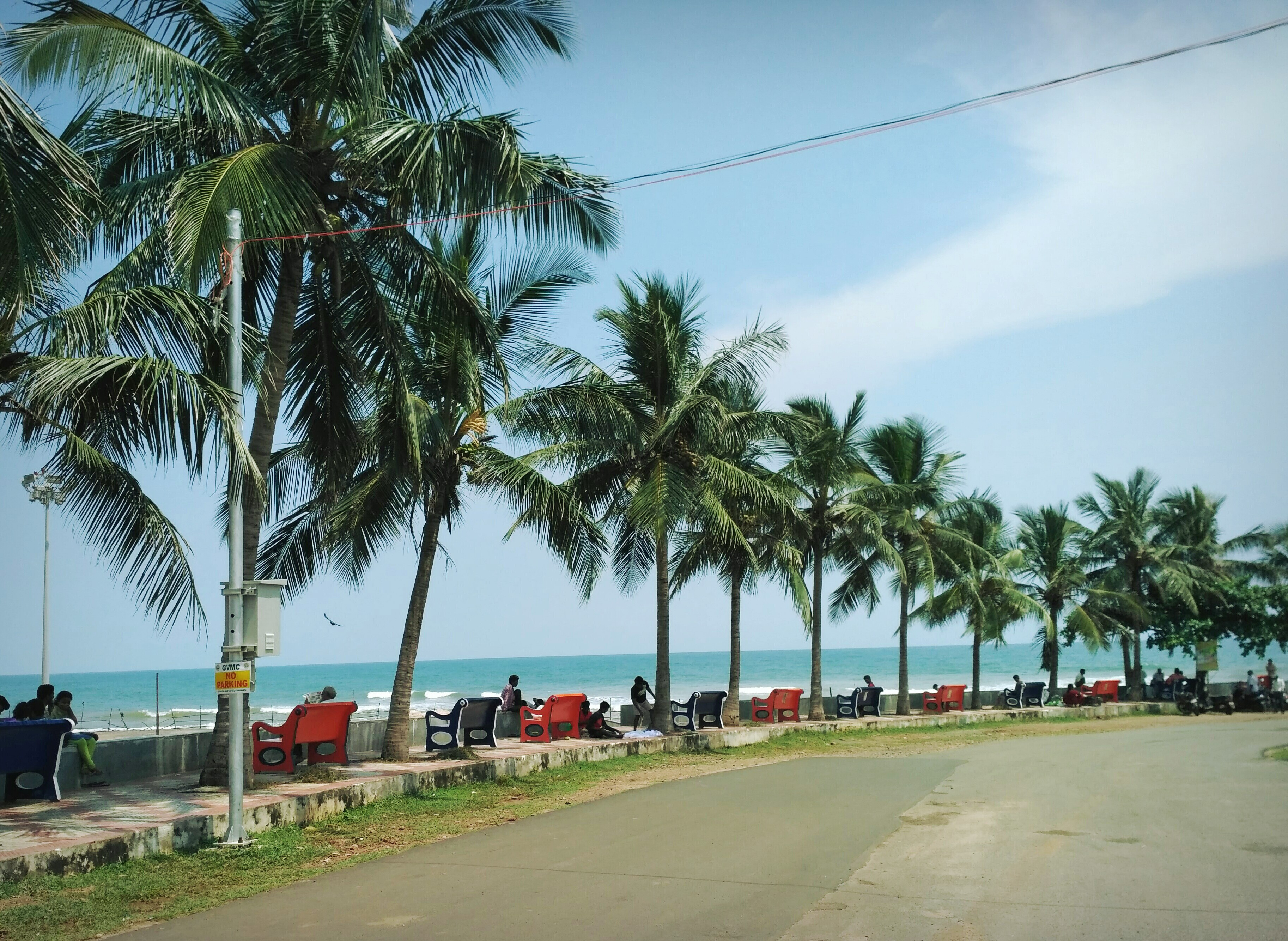 bheemili